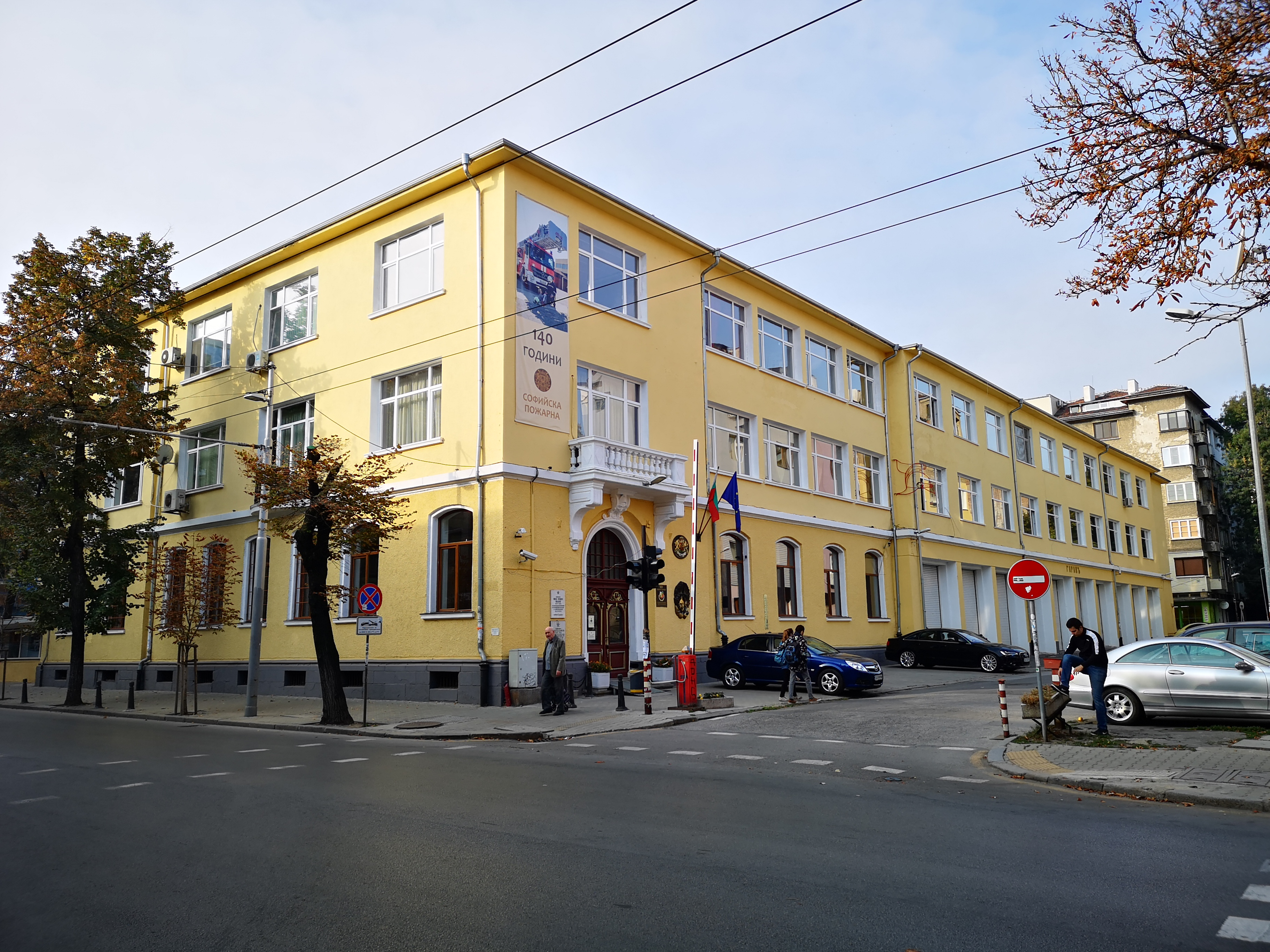 Fire Department Sofia in 2018